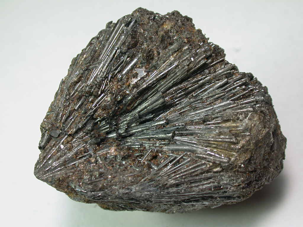 Cylindrite Locality: Trinacria Mine, Callipampa, Poopó Province, Oruro Department, Bolivia Original description: A very rich 4.5 by 4.0 cms group of crystals. JSS specimen and photo.